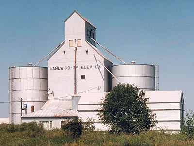 The Landa grain elevator, one of the landmarks of Landa, North Dakota.